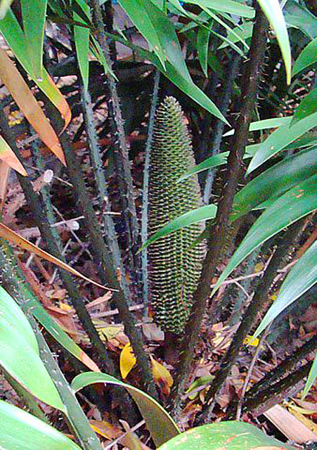 A thorny species native to southern Mexico and adjacent Guatemala. Photo from the San Diego Zoo. In context at